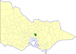 Location of the Shire of Broadford within Victoria.